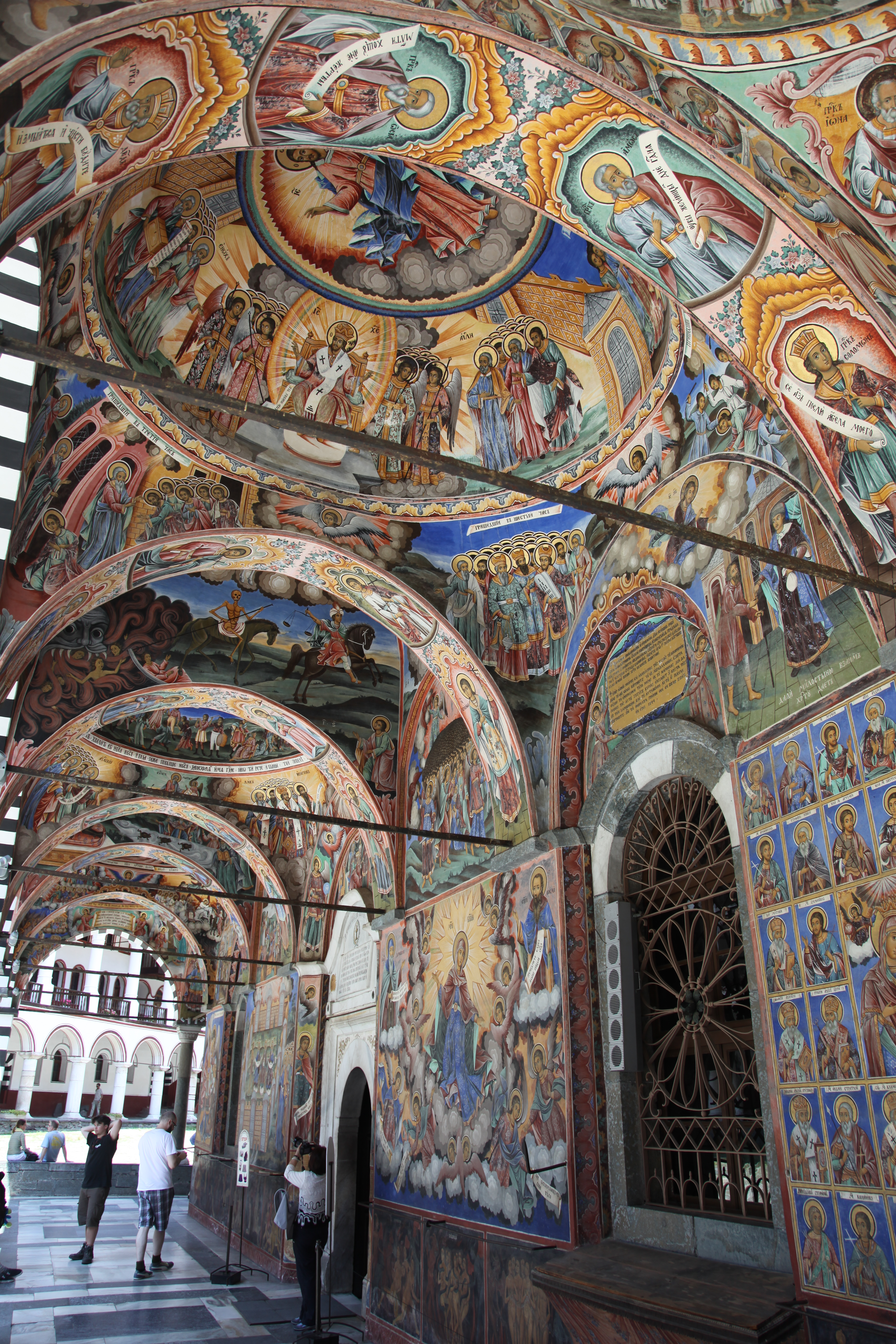 Dekorations on the outside of the church in Rila Monastery